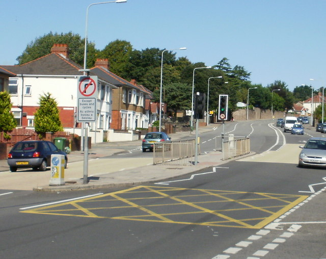 Looking up Rumney Hill, Cardiff The B4487 Newport Road ascends Rumney Hill, from the edge of the Rhymney River.